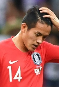 Mexico and South Korea match at the FIFA World Cup 2018-06-23